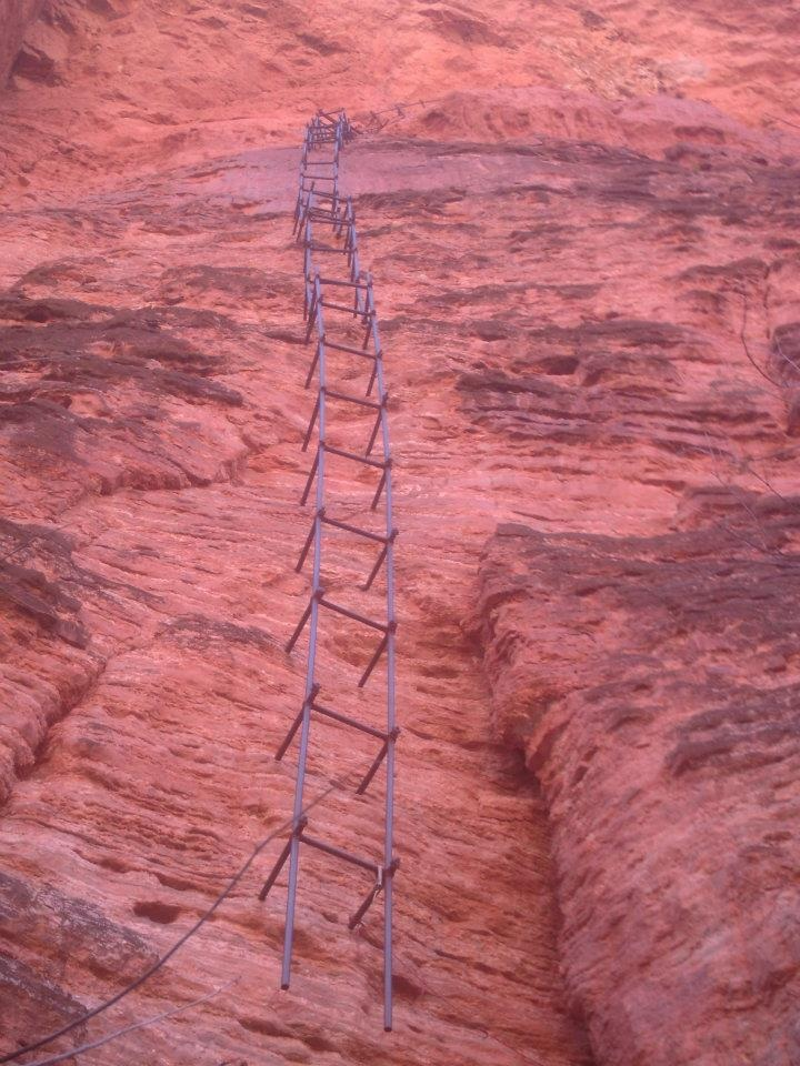 Shot from the bottom of the pipe ladder nearby Mooney falls.